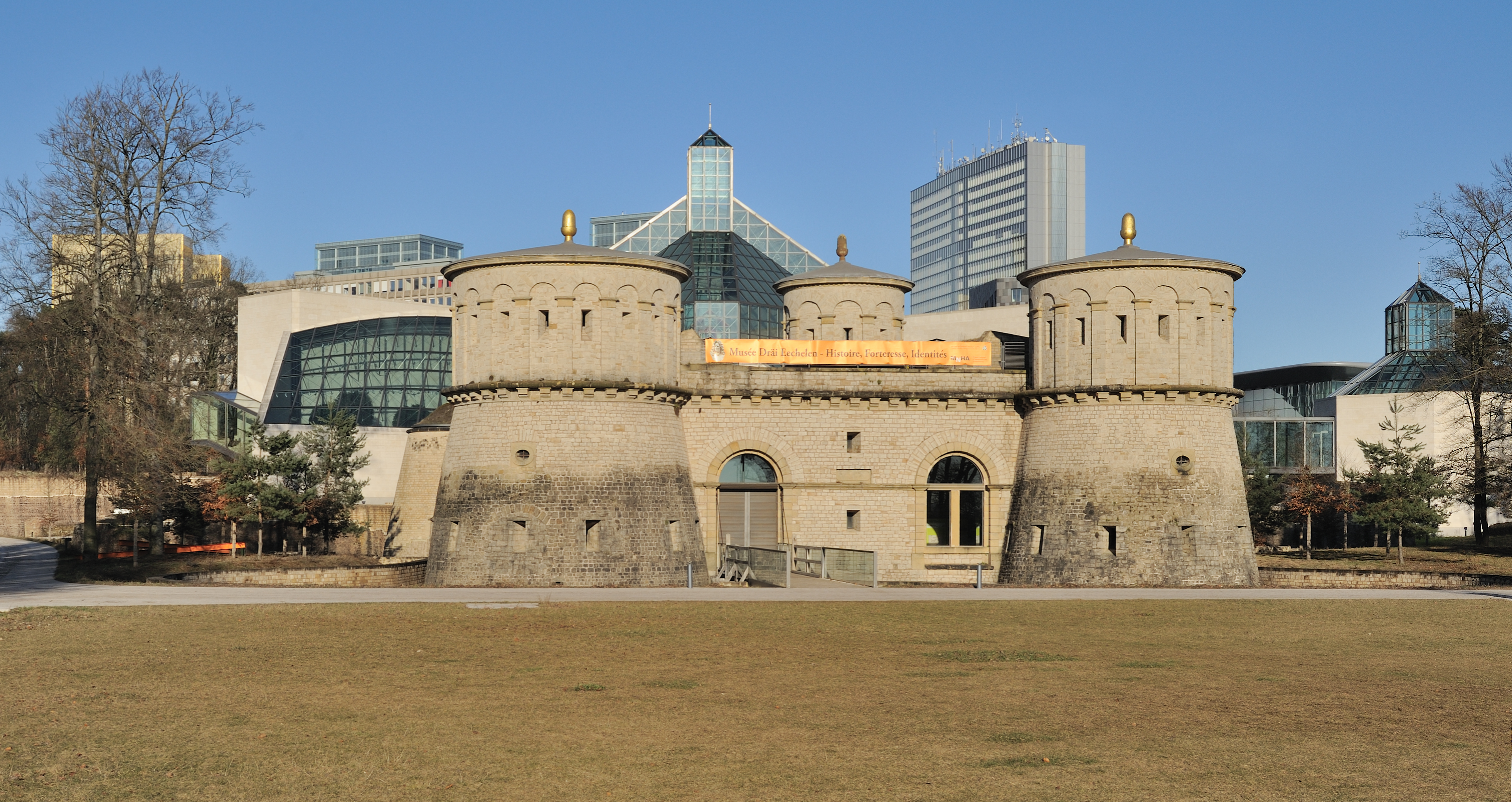 Luxembourg City: Fort Thüngen, part of the ancient fortress of Luxembourg.